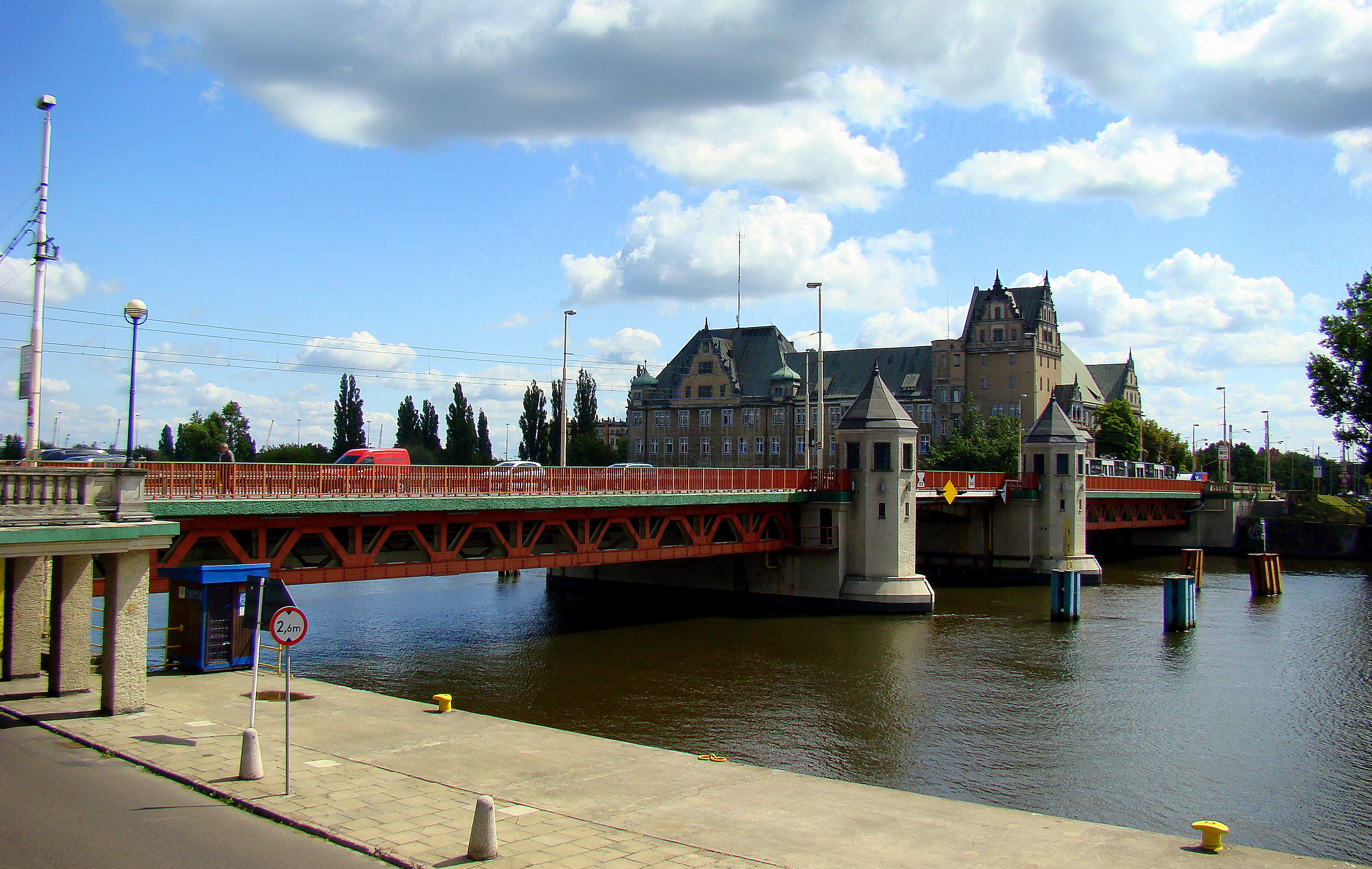 Dlugi Bridge, Szczecin, Poland